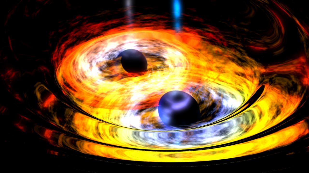 Two black holes are entwined in a gravitational tango in this artist's conception. Supermassive black holes at the hearts of galaxies are thought to form through the merging of smaller, yet still massive black holes, such as the ones depicted here. NASA's Wide-field Infrared Survey Explorer, or WISE, helped lead astronomers to what appears to be a new example of a dancing black hole duo. Called WISE J233237.05-505643.5, the suspected black hole merger is located about 3.8 billion light-years from Earth, much farther than other black hole binary candidates of a similar nature.